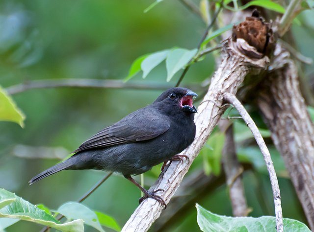 A Sooty Grassquit in Piraju, São Paulo, Brazil.